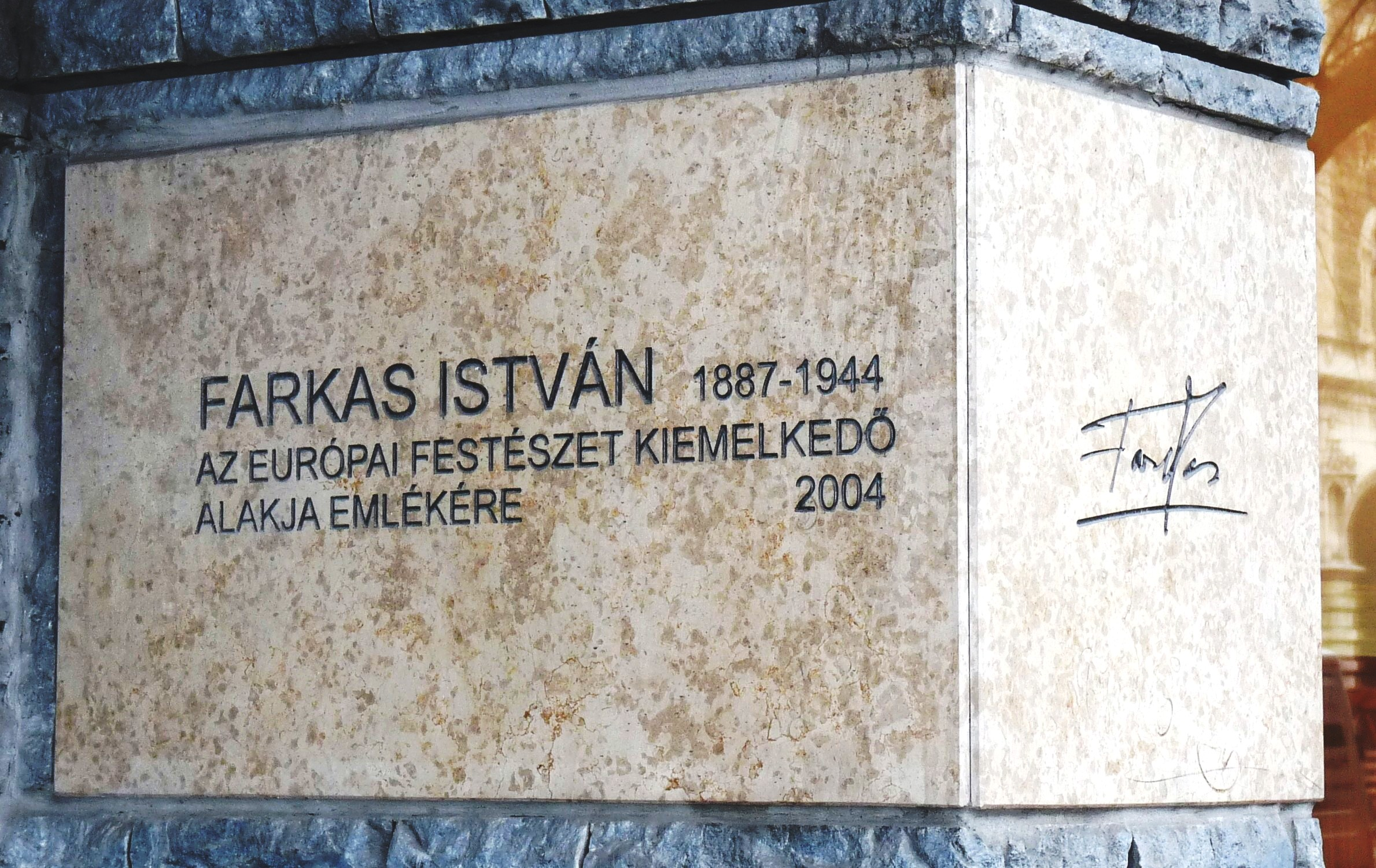 Commemorative plaque to Mr. István Farkas (1887-1944) Hungarian painter and publishing house’s owner. It is affixed at the entrance of his former house. (Budapest, District VI, Andrássy Avenue Nr 16).